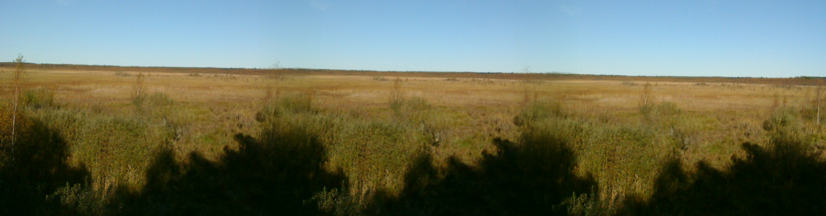 The Vissjö bird sanctuary, Björklinge-Läby, Uppland, Sweden